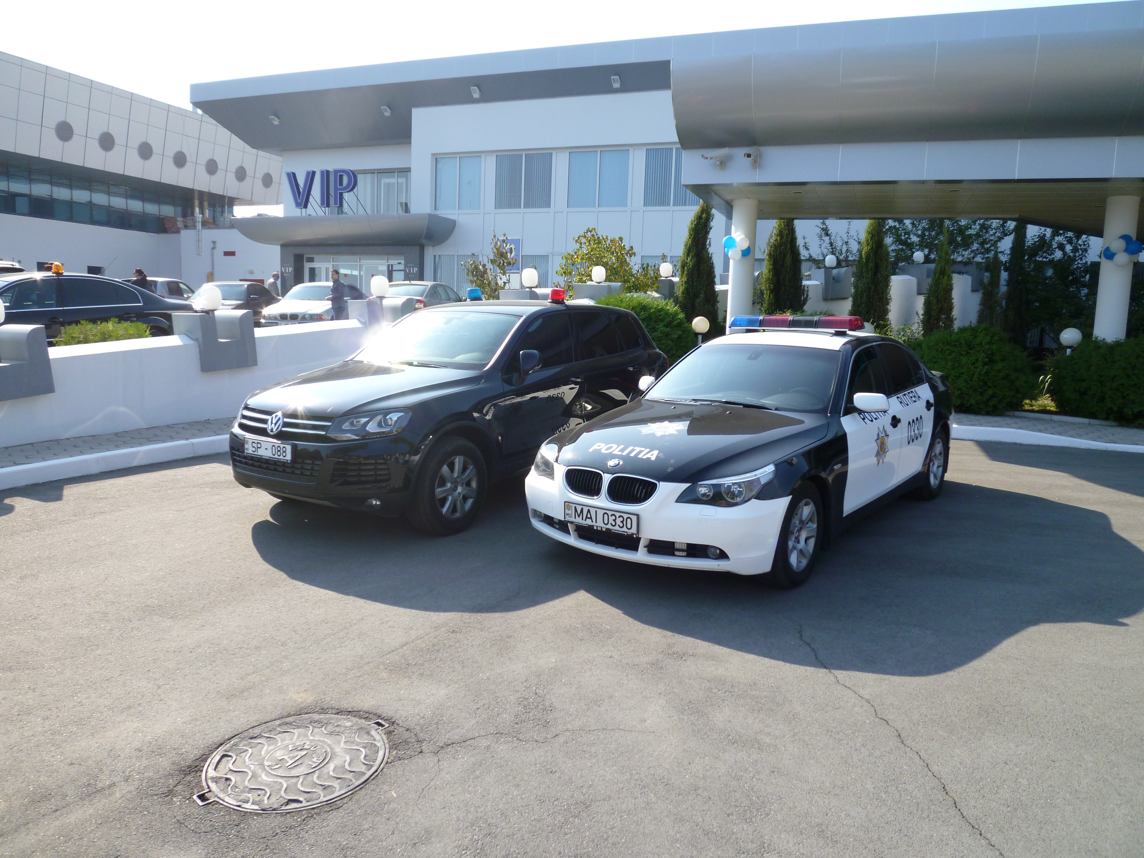 BMW E60 police car and a special services VW Touareg at the Chisinau Airport, 2011